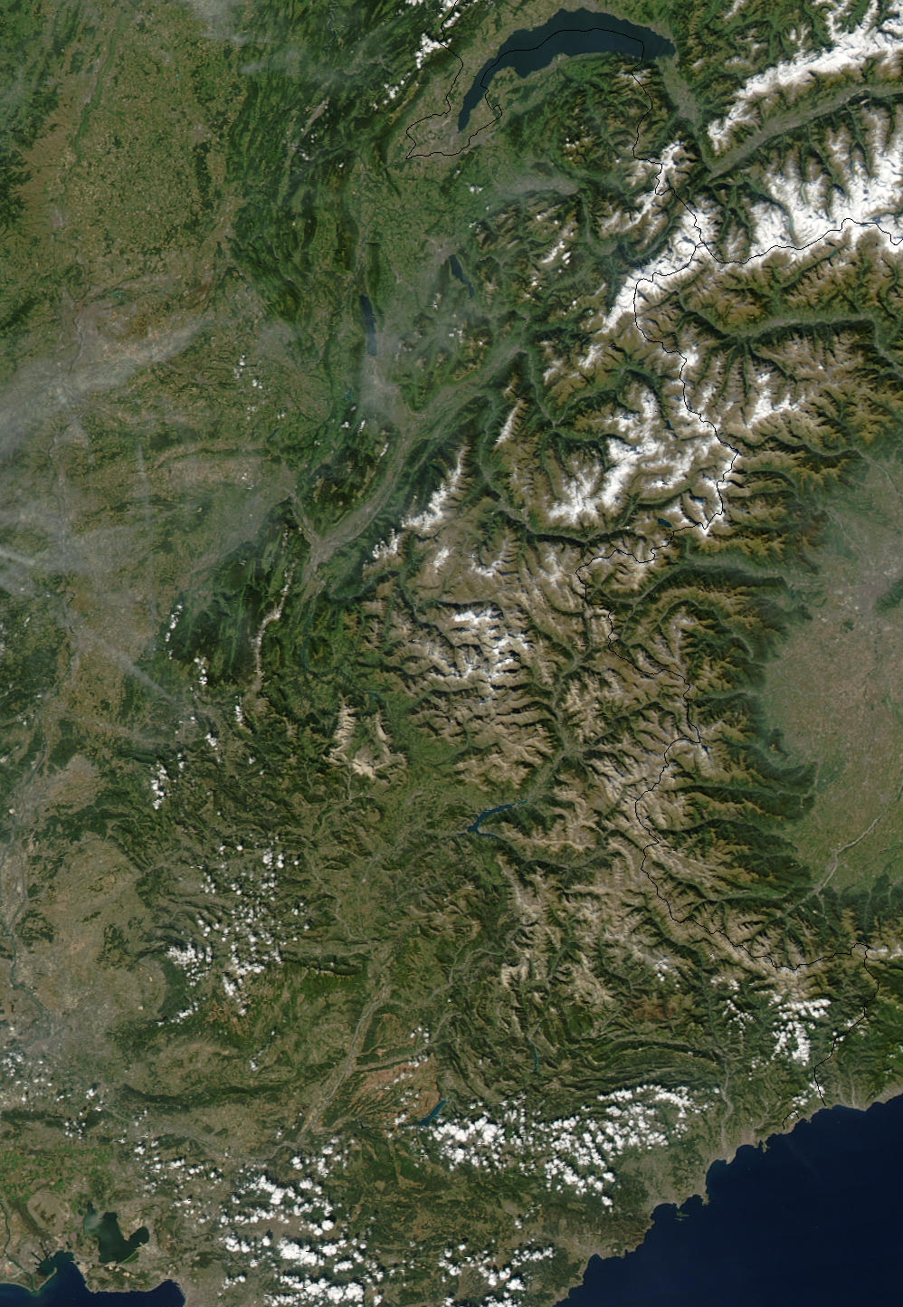 Satellite photo of the French Alps